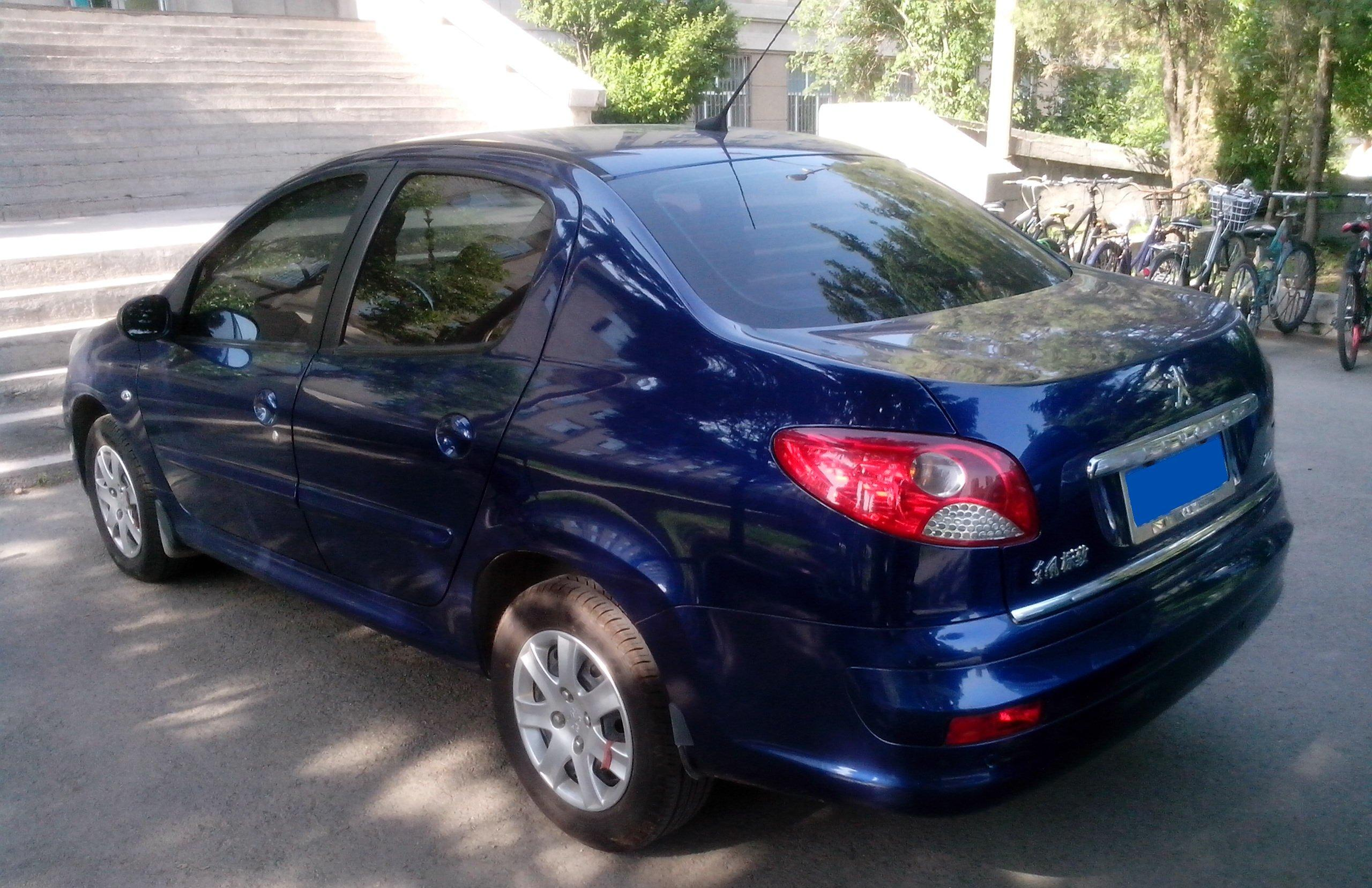 Peugeot 207 Sedan (Chinese market), produced by Dongfeng Peugeot(东风标致).